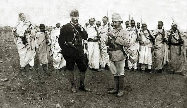 Kemal Atatürk (or alternatively written as Kamâl Atatürk, Mustafa Kemal Pasha until 1934, commonly referred to as Mustafa Kemal Atatürk; 1881 – 10 November 1938) was a Turkish field marshal, revolutionary statesman, author, and the founding father of the Republic of Turkey, serving as its first President from 1923 until his death in 1938. He undertook sweeping progressive reforms, which modernized Turkey into a secular, industrial nation. Ideologically a secularist and nationalist, his policies and theories became known as Kemalism. Due to his military and political accomplishments, Atatürk is regarded as one of the most important political leaders of the 20th century.